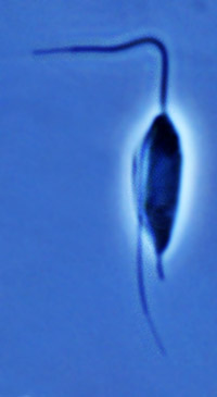 Living Jakoba libera cell, with two flagella, the posterior one lying in a groove (from which the excavates get their name).